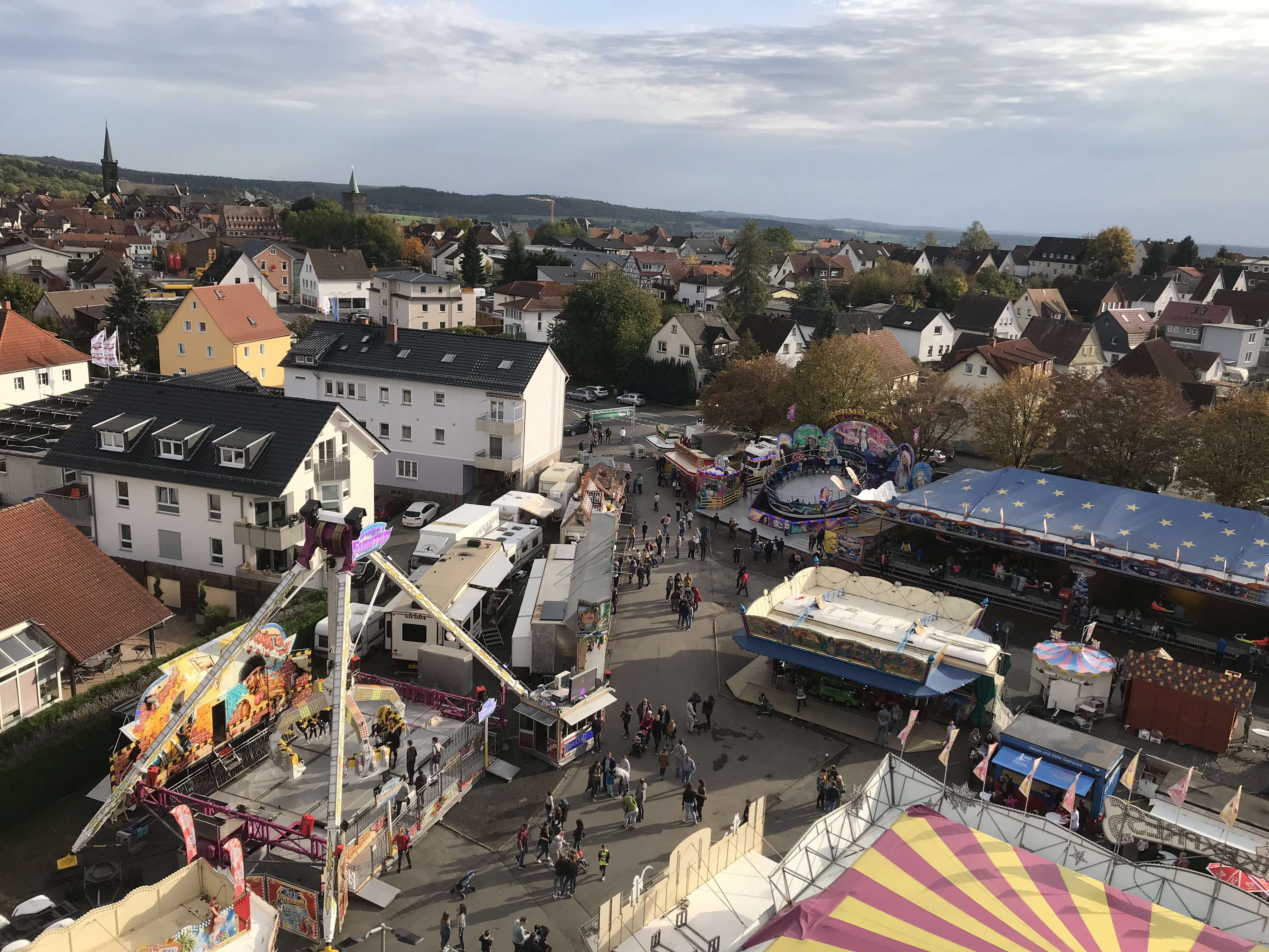 Fairground "Käswiese", October 2019